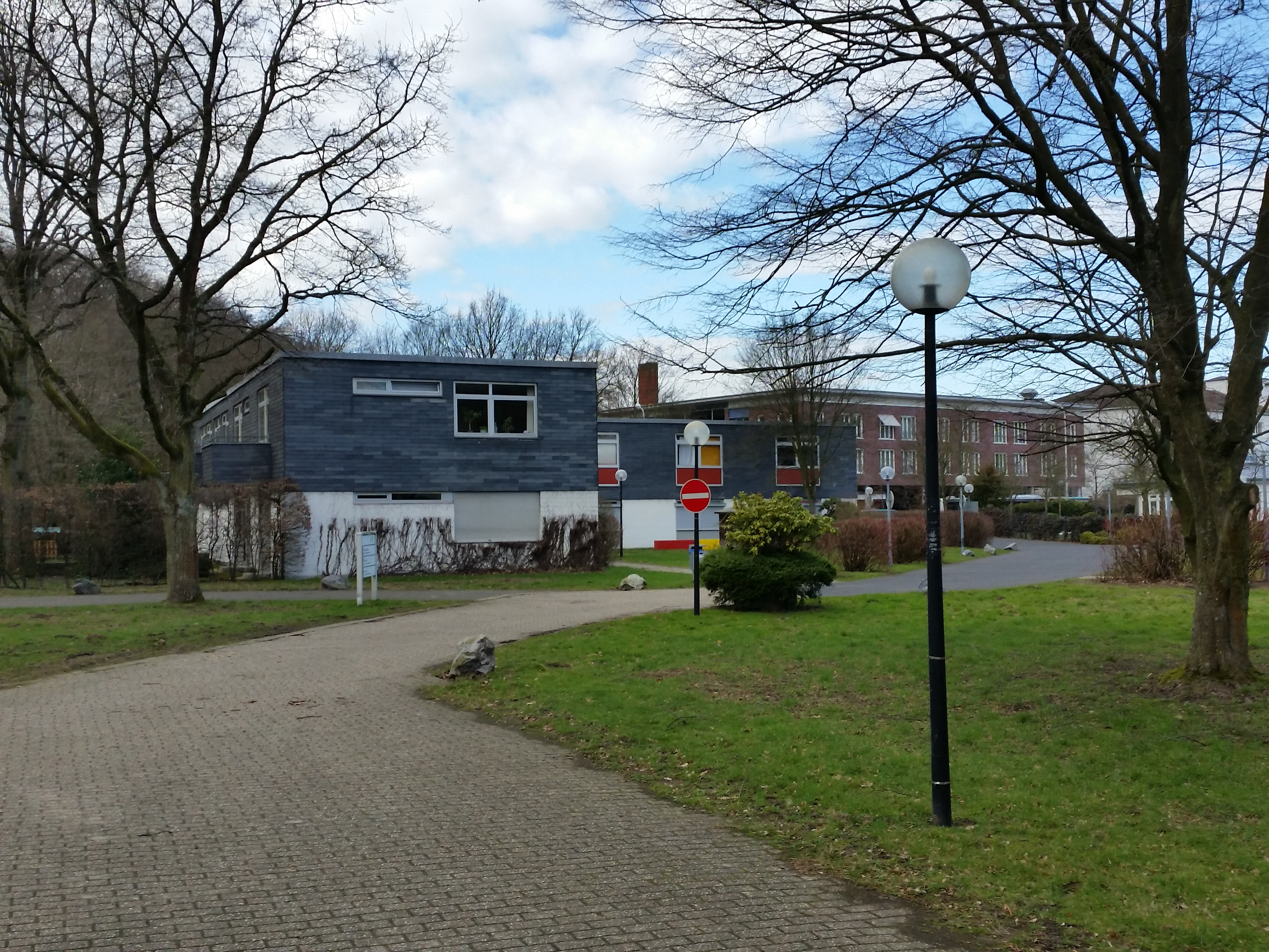 Graf Recke Stiftung, Campus Hilden, Hilden, 2017.